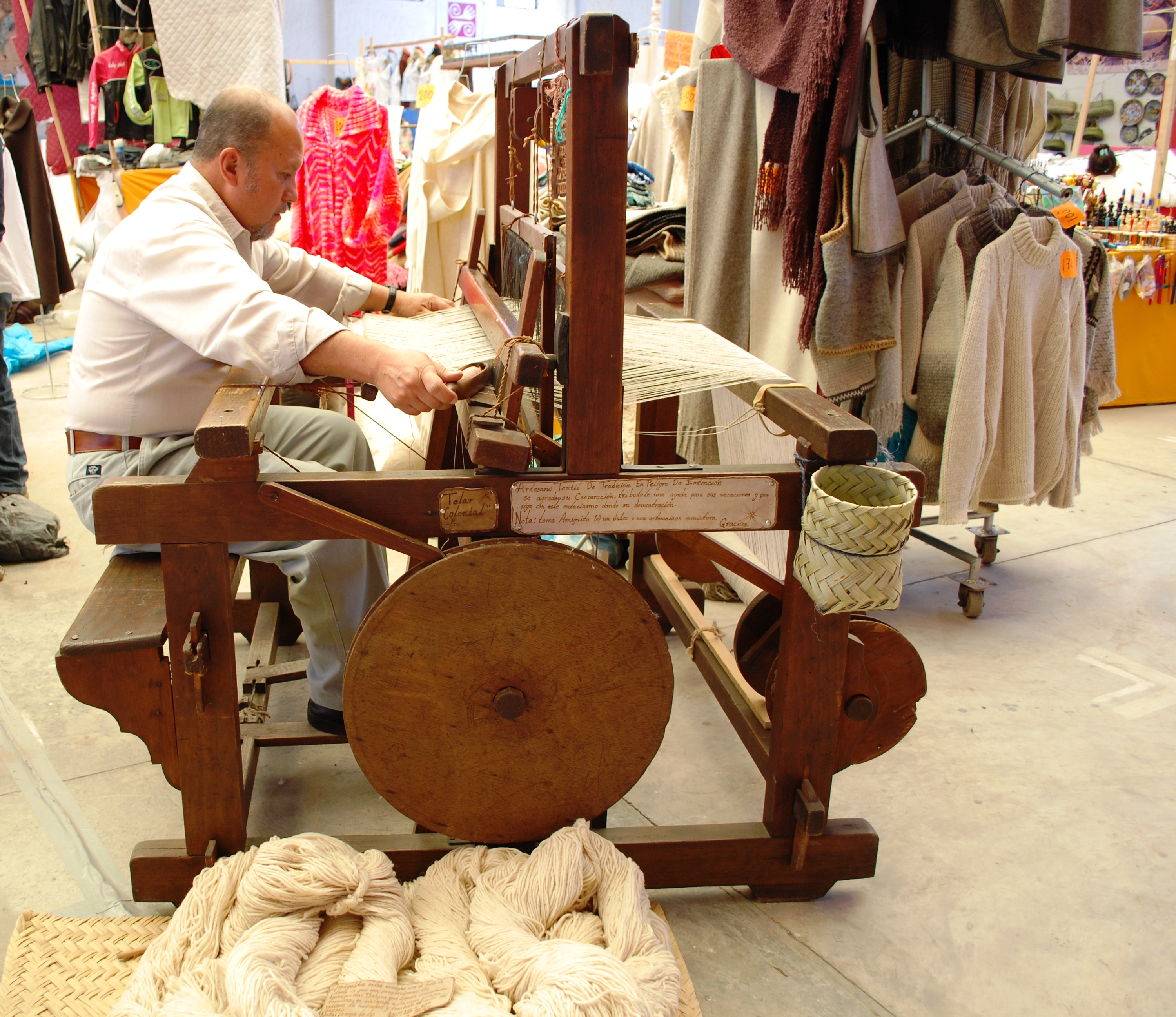 Weaver at the Feria del Caballo in Texcoco, Mexico State, Mexico